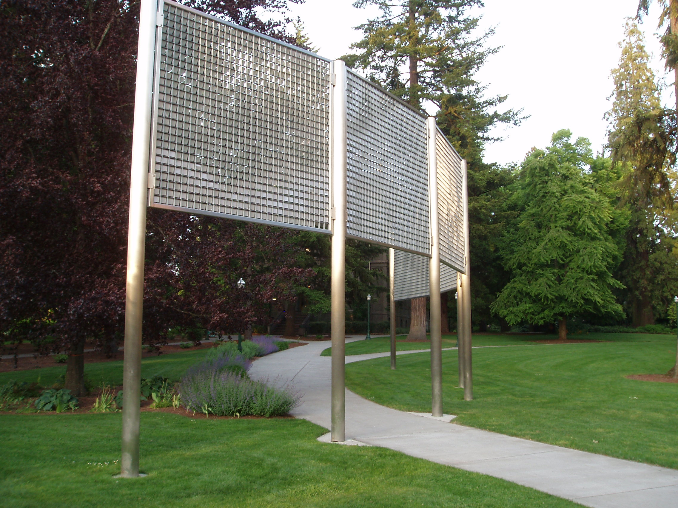 The wind fence built as part of the Lillis Business Complex, on the University of Oregon campus in Eugene, Oregon. Deady Hall, the first building on campus, can be seen in the background.